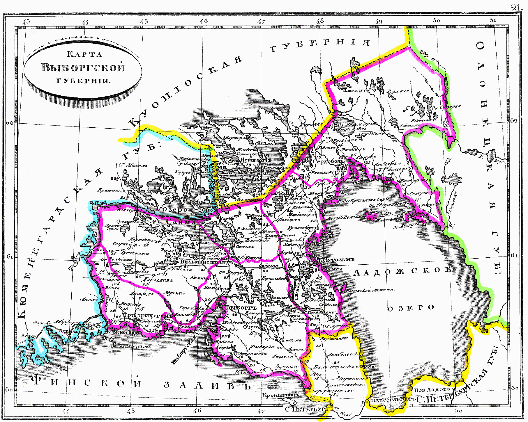 Map of Wyborg Governorate, 1835